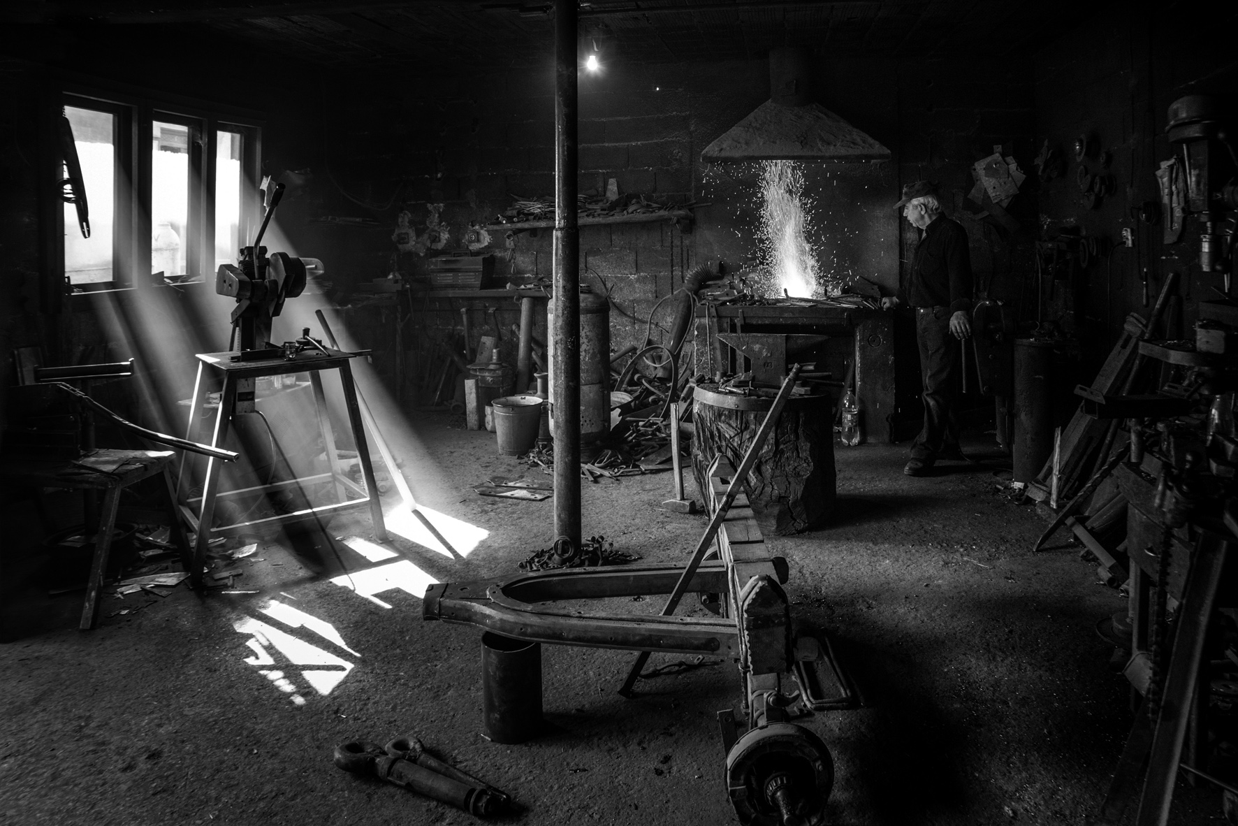 The Blacksmith